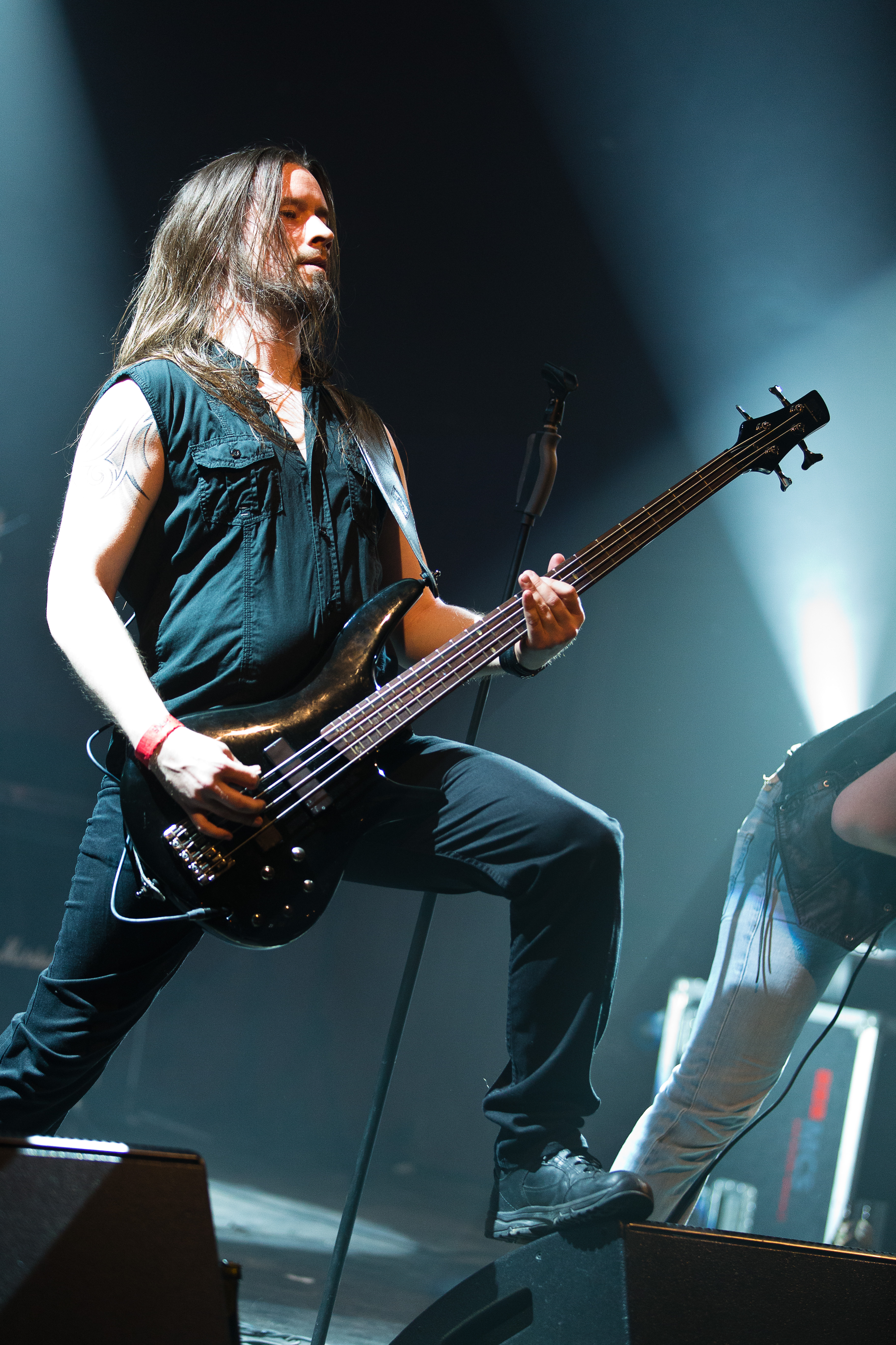 The Austrian pagan metal band Bifröst at the 25. Wave-Gotik-Treffen 2016 in Leipzig/Germany.